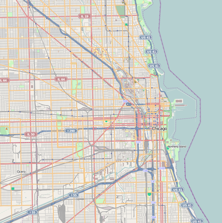 Map of Chicago Geographic limits of the map: N: 41.9653° S: 41.8096° W: -87.7738° E: -87.5658°